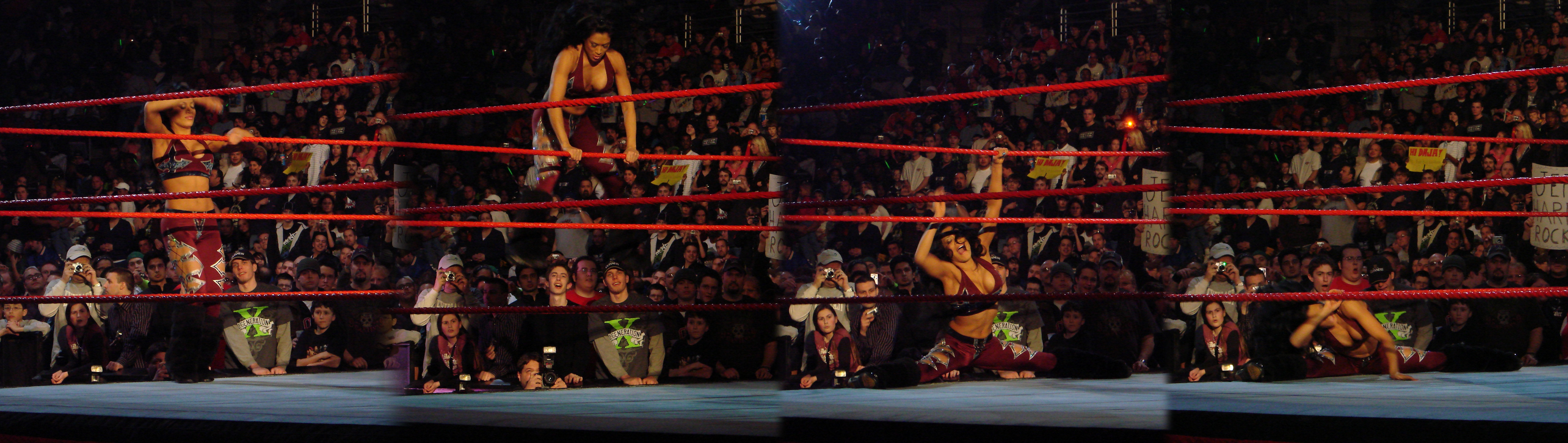 Melina at WWE Raw. Bradley Center, Milwaukee WI. Taken by myself. Rotated, cropped, and merged.